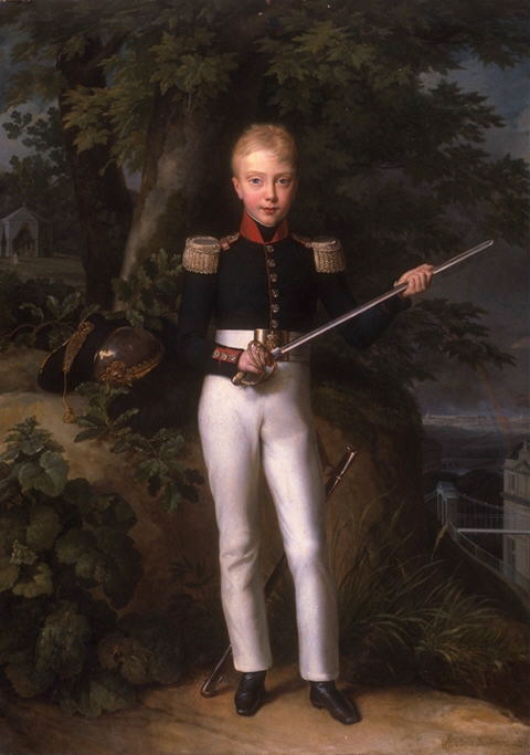 A portrait depicting the young Duke of Bordeaux in a military uniform.